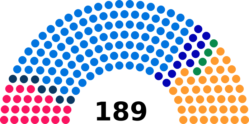 Seats diagramme of Swiss National Council (1917)